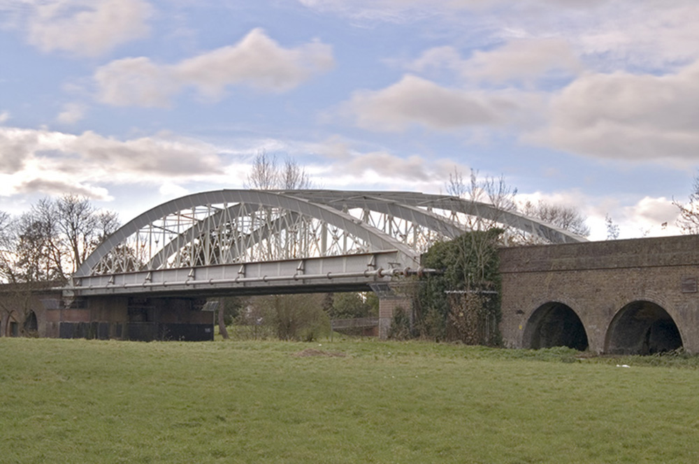 Brunels 1849 GWR Bridge at Windsor across the Thames Source: WyrdLight .